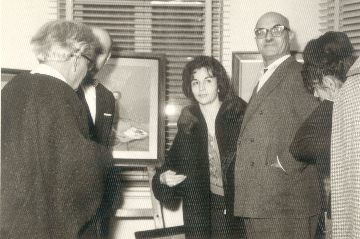 this is considered in public domain now because its copyright condition has been already expired in Iran. according to the "National law in support of authors, composers and artists" ratified in 01/01/1970 and published in 01/02/1970, the license for photographs and films after their issuing date is valid for 30 years.